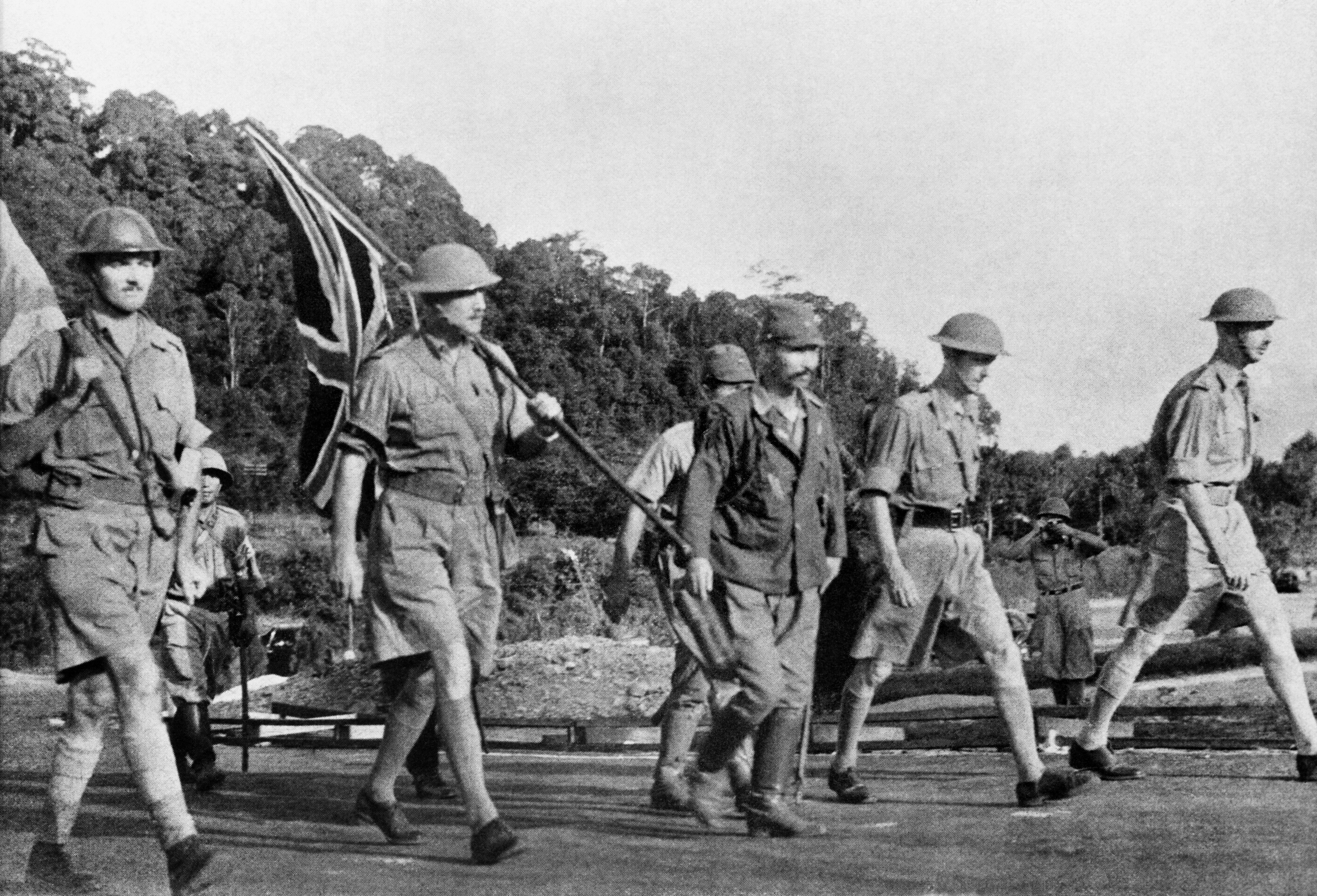 Lieutenant-General Percival and his party carry the Union flag on their way to surrender Singapore to the Japanese. Left to Right: Major Cyril Wild (carrying white flag) interpreter; Brigadier T. K. Newbigging (carrying the Union flag) Chief Administrative Officer, Malaya Command; Lieutenant-Colonel Ichiji Sugita; Brigadier K. S. Torrance, Brigadier General Staff Malaya Command; Lieutenant General Arthur Percival, General Officer Commanding, Malaya Command. [1]